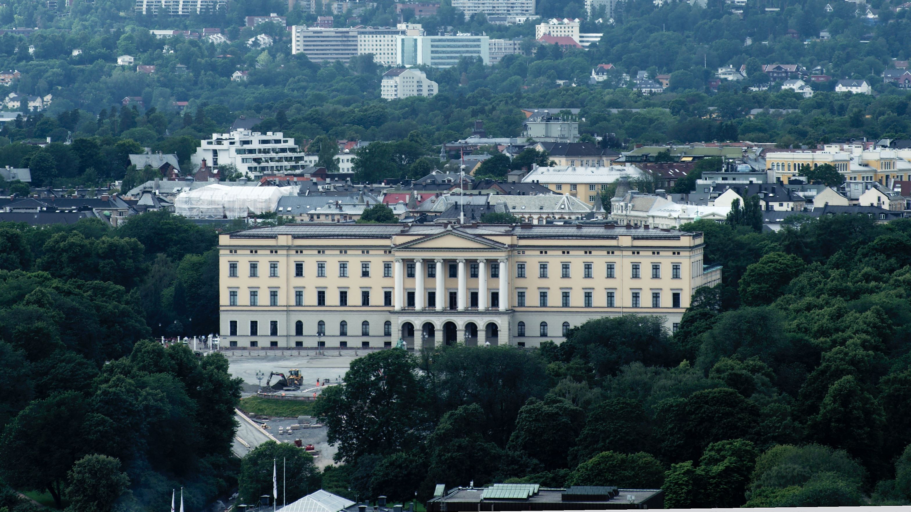 Royal Castle in Oslo.